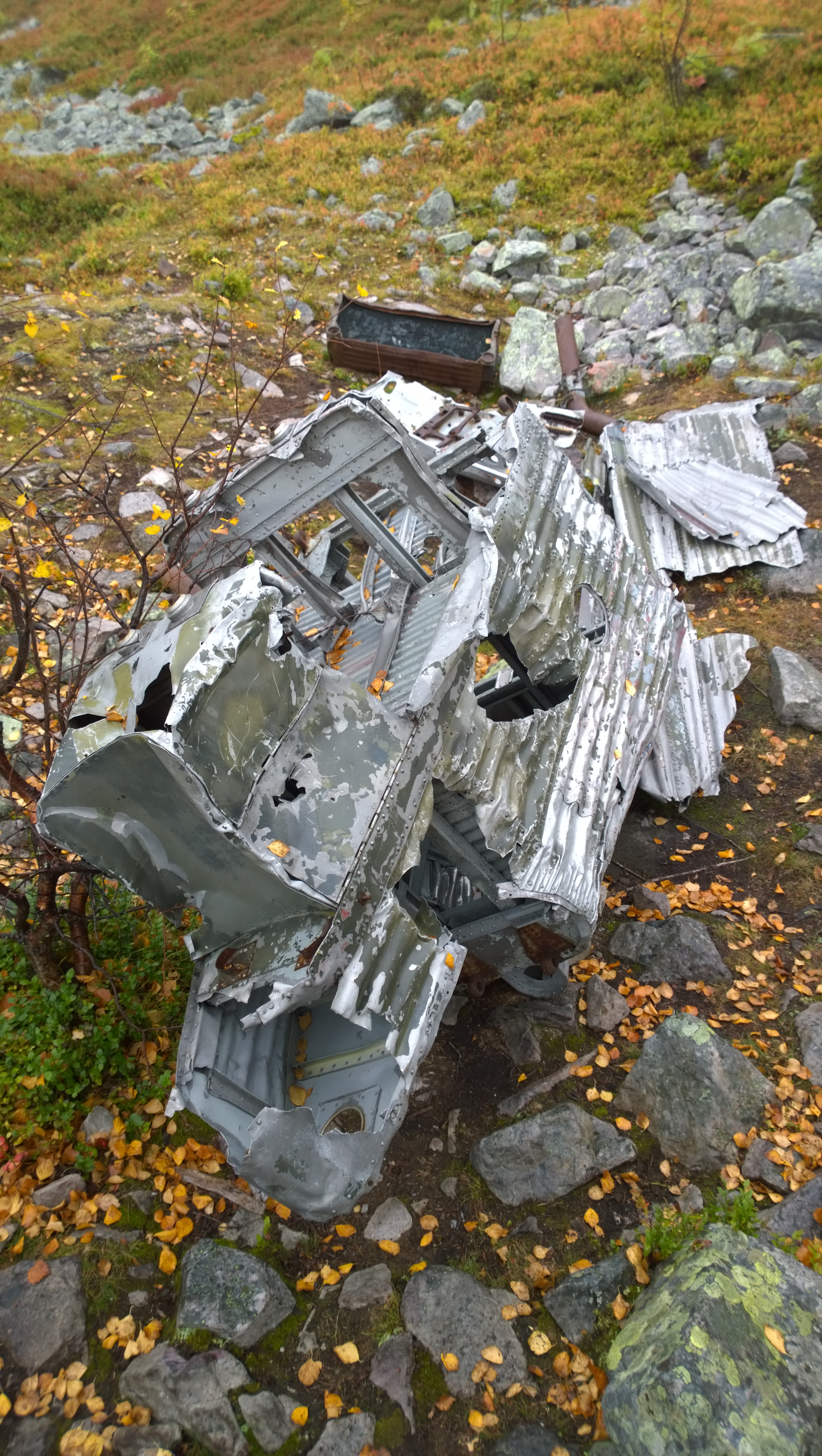 Remains of a Junkers Ju 52 on the side of Moloslaki, at the Aakenustunturi fell in 2015. The plane crashed here in 1944.